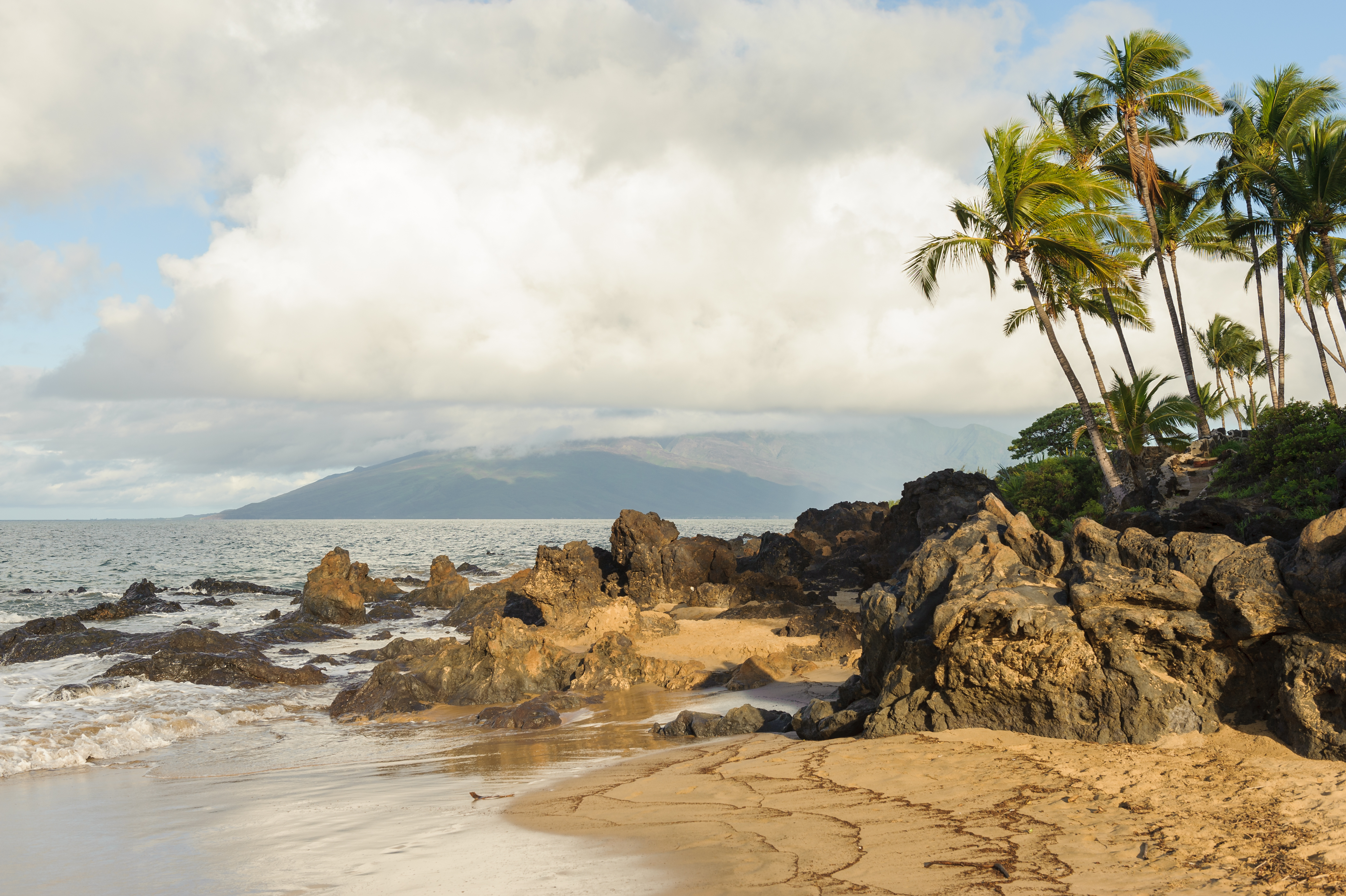 Maui, Hawaii beach